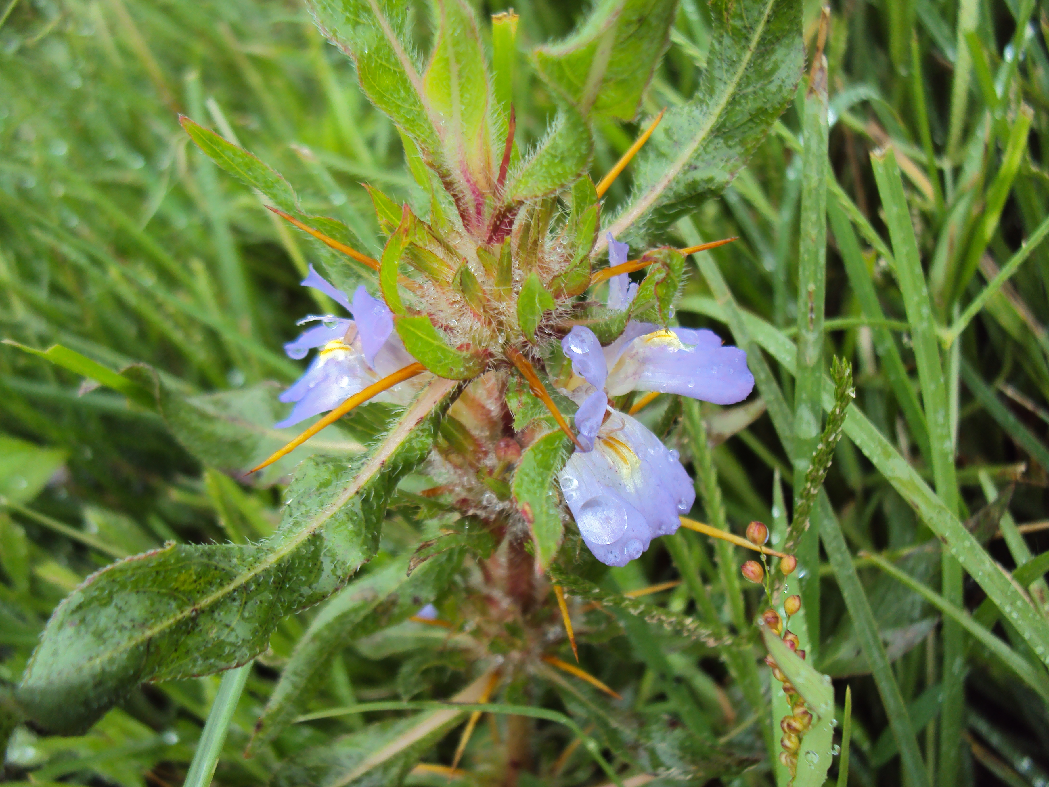 Hygrophila auriculata